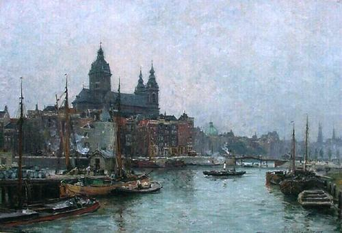 Amsterdam